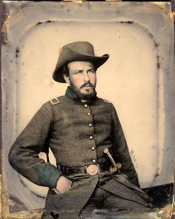 2nd Lieutenant Samuel Adams, Co. G, 9th Alabama Infantry, Alabama Department of Archives and History